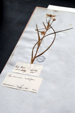 Specimen from Georgiana Molloy held in Kew Herbarium UK, from Vasse, Western Australia